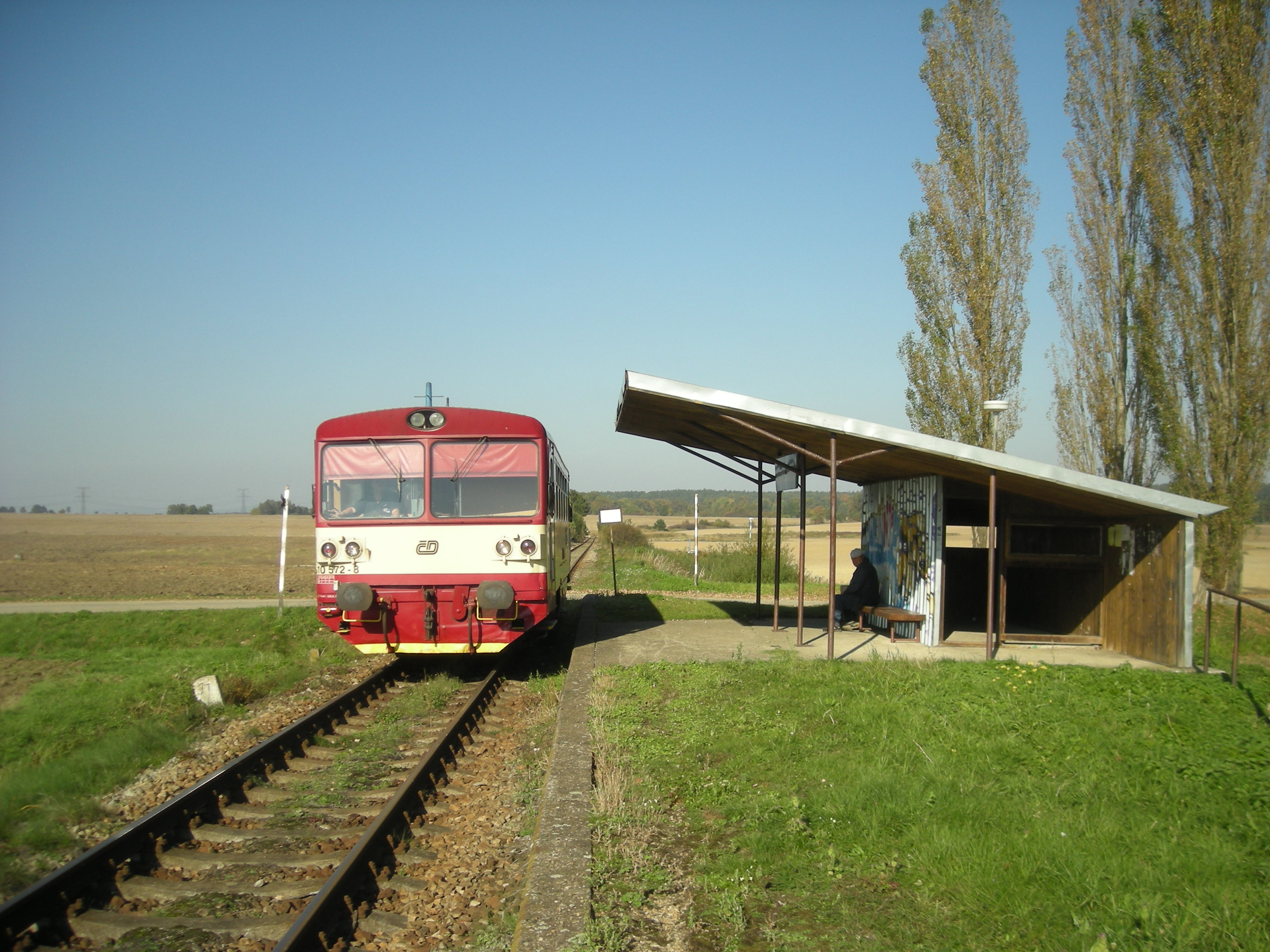 Diesel railcar 810.572-8 arriving at Malovice u Netolic, Czech Republic, on a secondary line from Dívčice to Netolice.